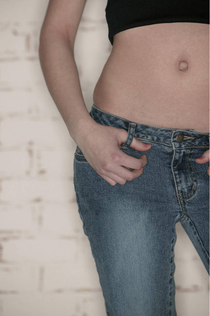 Outie navel in Jeans